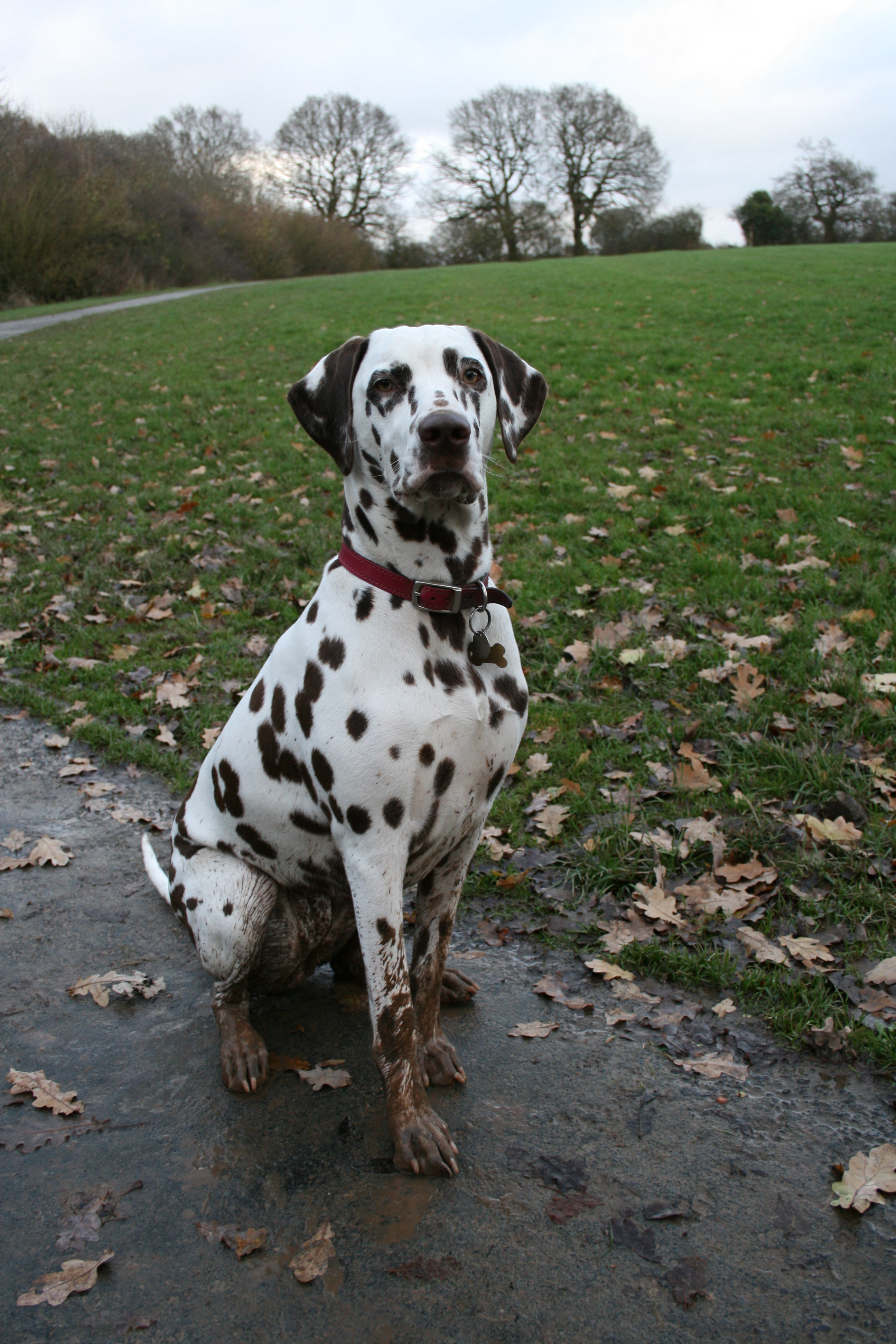 Morton Stanley Park, Redditch, 2007-12-02